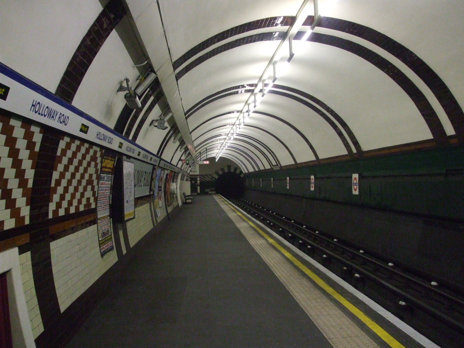 Holloway Road tube station northbound platform, looking south